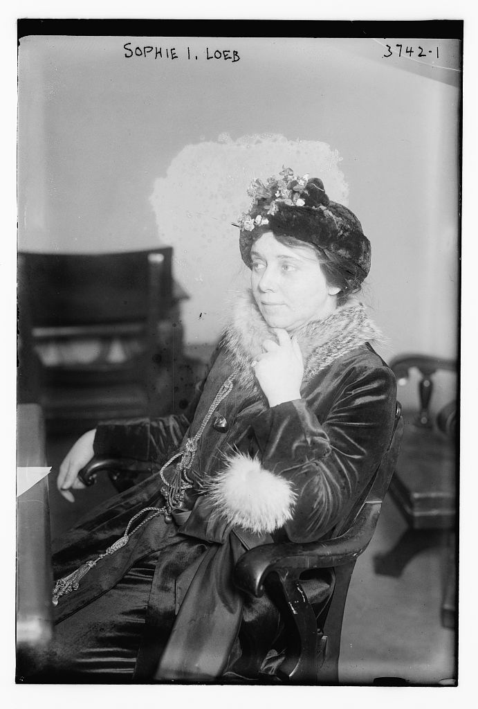 Sophie Irene Simon Loeb (1876-1929) in 1916